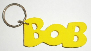 Bob campaign keychain